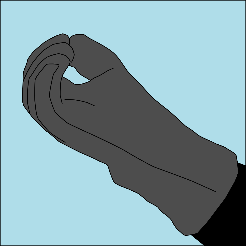 RSTC standard hand signal for scuba diving - OK version 2